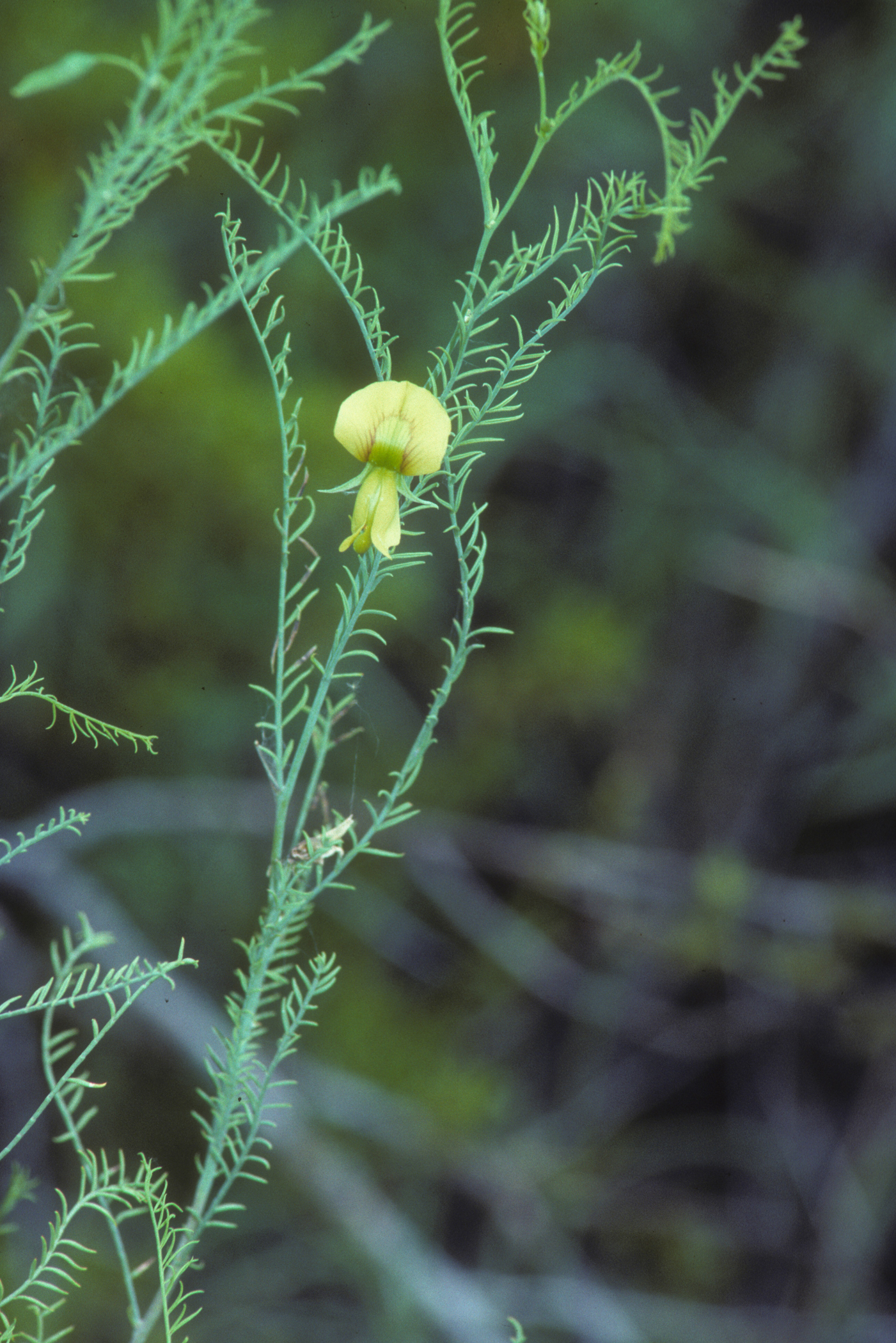 Brongniartia minutifolia at Big Bend National Park, Texas, USA. Aug 1991. from slide.